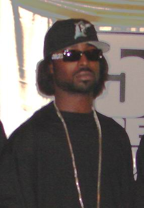 Young Buck for G-Unit clothing